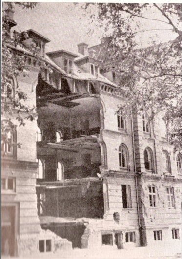 RAF Attack on Aarhus University Gestapo headquarters 31 October 1944 , Damage on Langelandsgaes kaserne